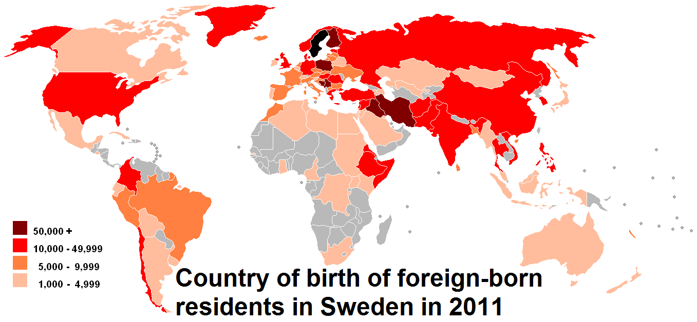 Estimated foreign-born residents in Sweden for 31 December 2011.